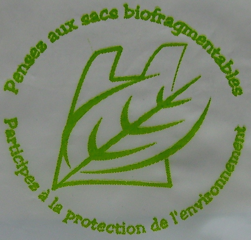 Photo of a part of an Oxo Biodegradable plastic shopping bag given in a pharmacy.